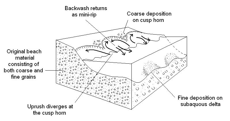 Cusp morphology showing divergence of the uprush at cusp horns and convergence of the backwash in cusp embayments.